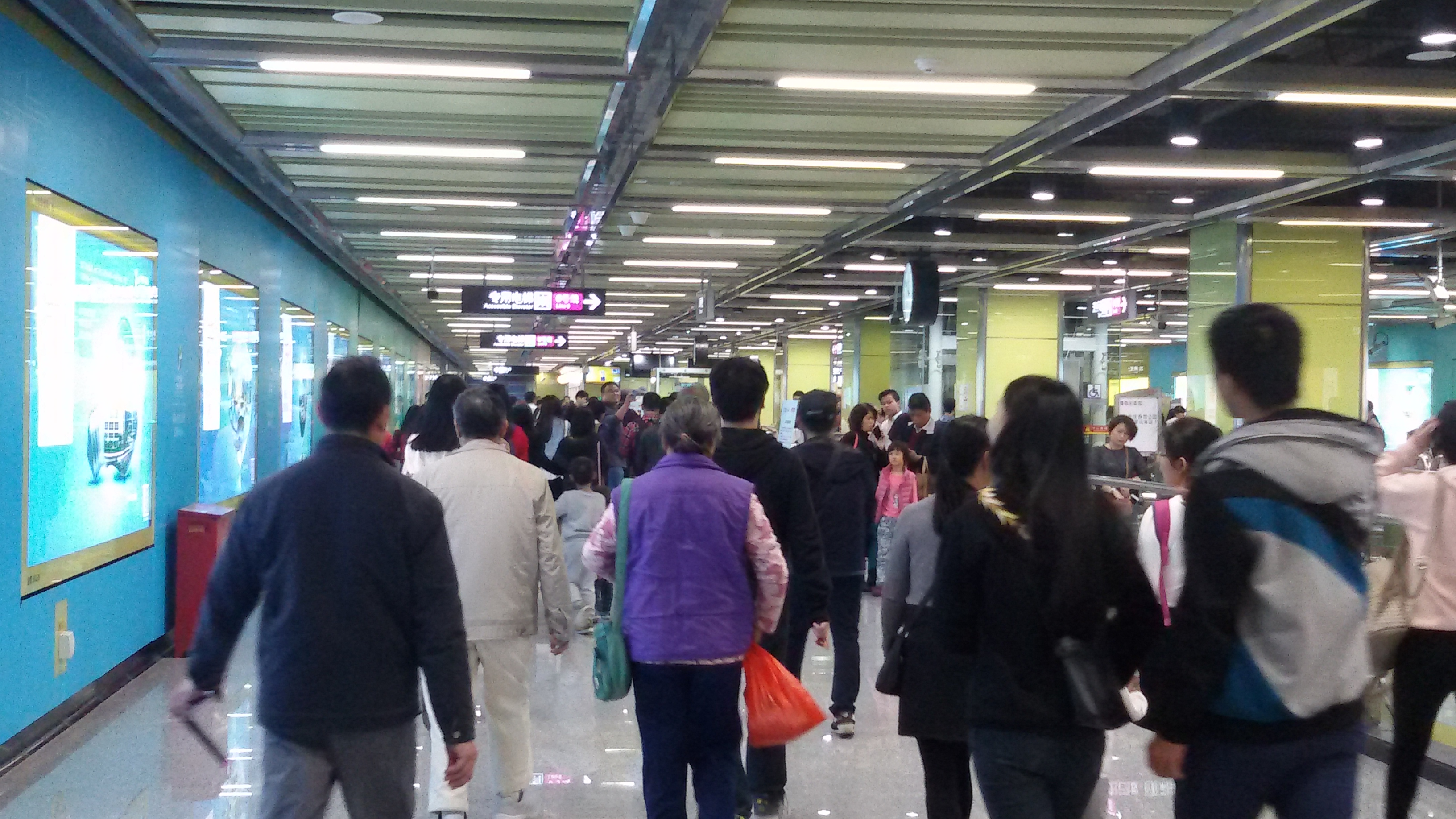 Station Concourse for Xiangxue Station in Guangzhou Metro (Jan. 1st., 2017).